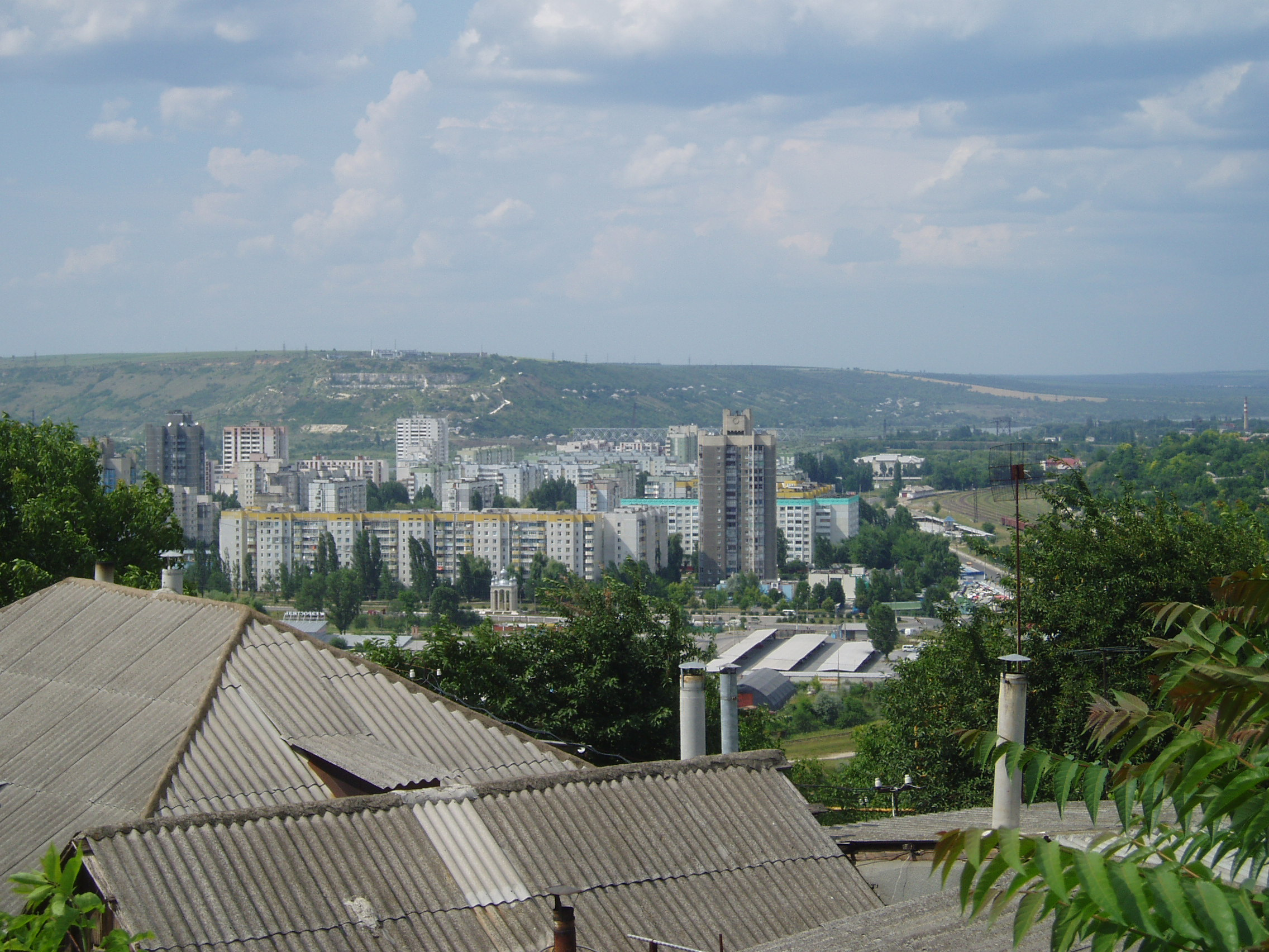 We came from the Transnistrian side with our rental car. In Ribniţa, Transnistria, Moldova.